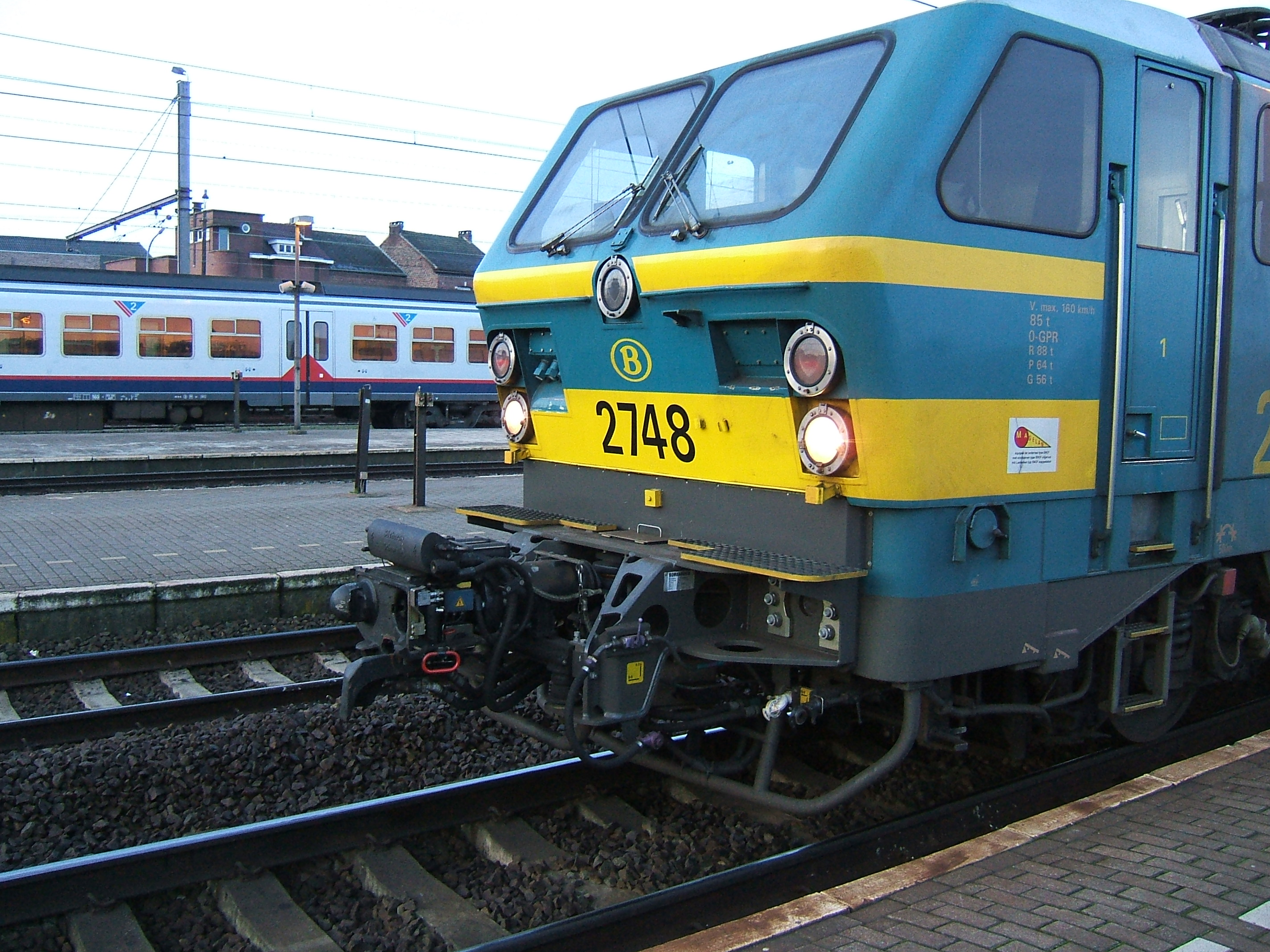 Class 27 with special coupler for M6 trainsets